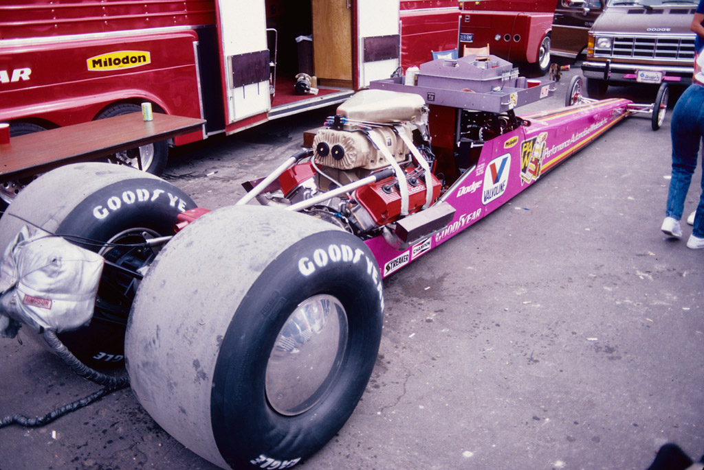 Shirley Muldowney, 3-time NHRA Top Fuel Champion at the 1986 NHRA Chief Auto Parts Nationals, Texas Motorplex. That's Shirley leaning out of the photo, I don't know why I didn't get one of her while I had the chance.1986 NHRA Chief Auto Parts Nationals, Texas Motorplex